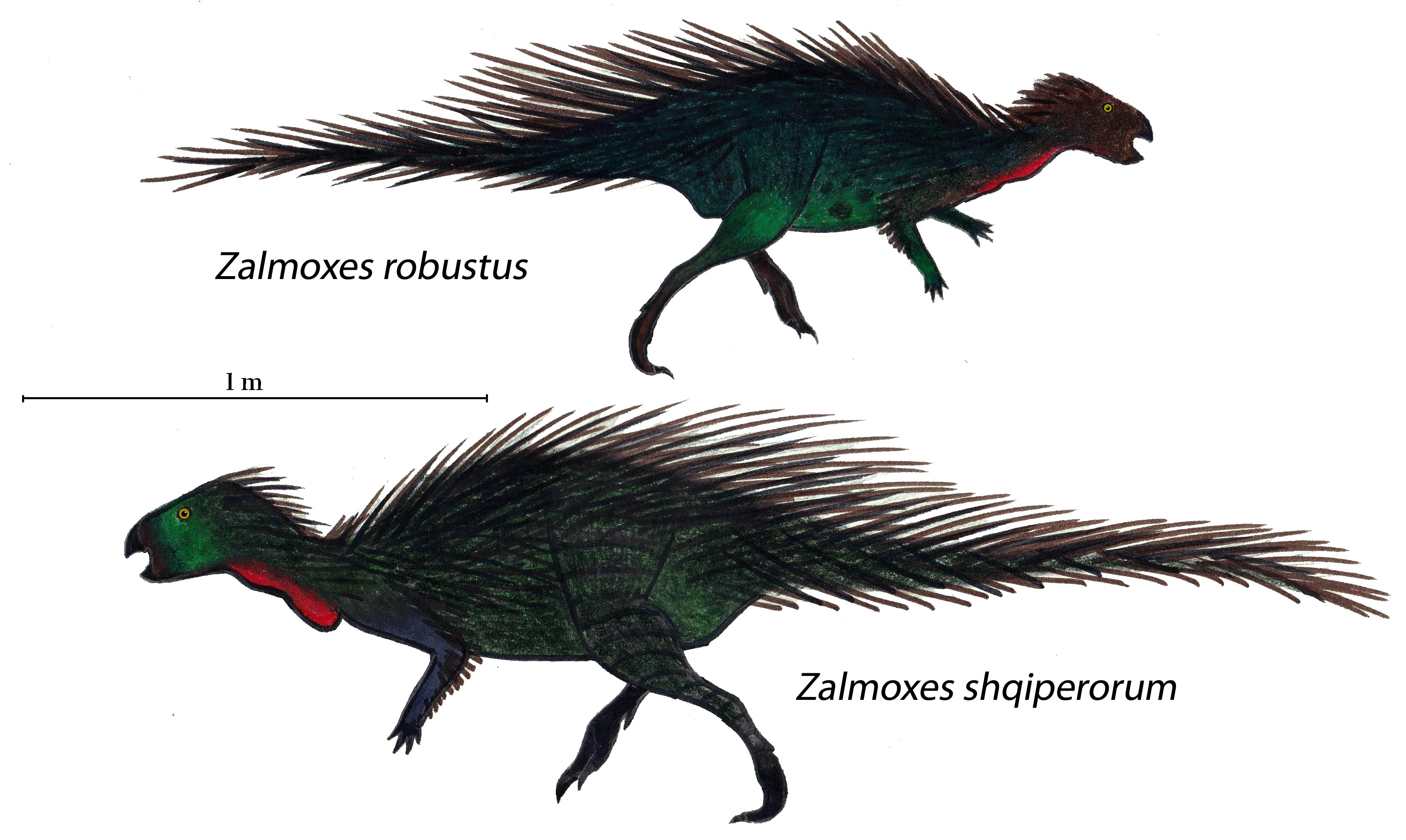 Comparison between Z. robustus and Z. shqiperorum